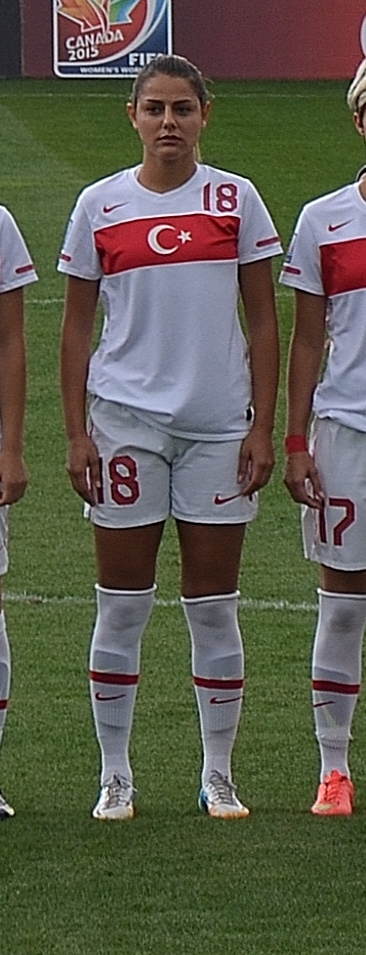 Eylül Elgalp for Turkey women's national football team in the home match against Belarus